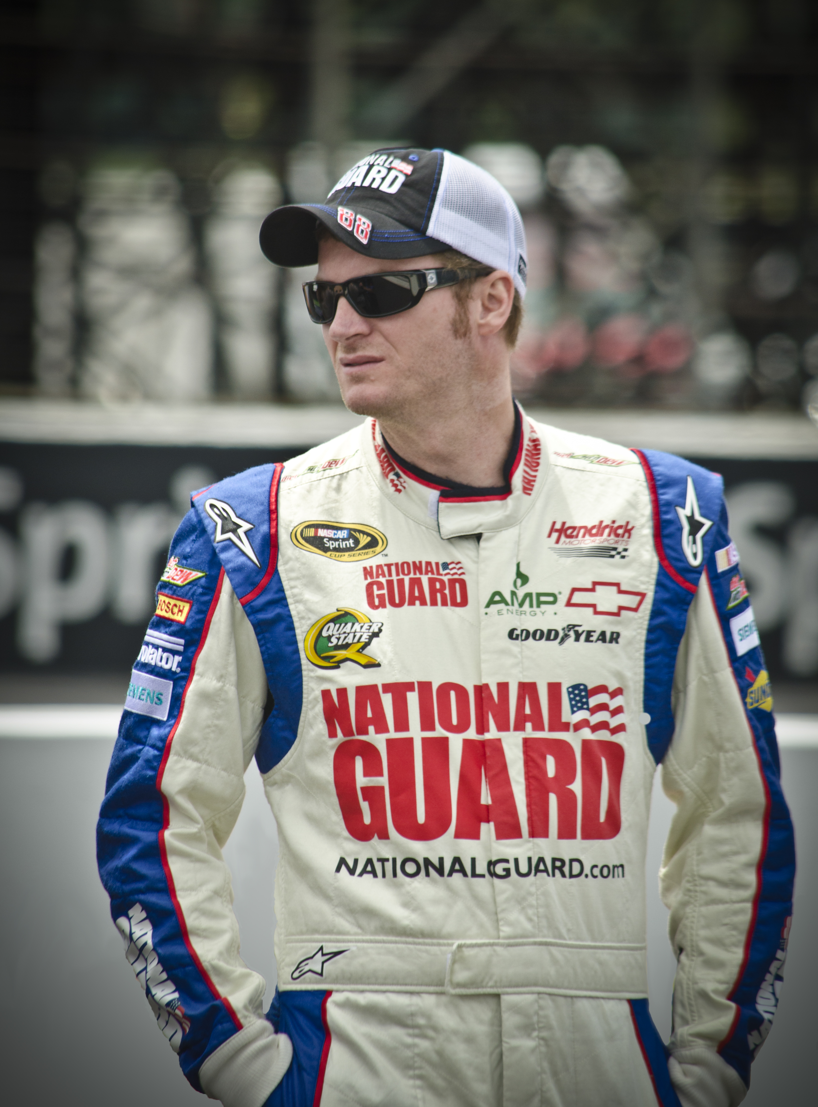 Photo of Dale Jr. getting ready to qualify for the Pocono 400